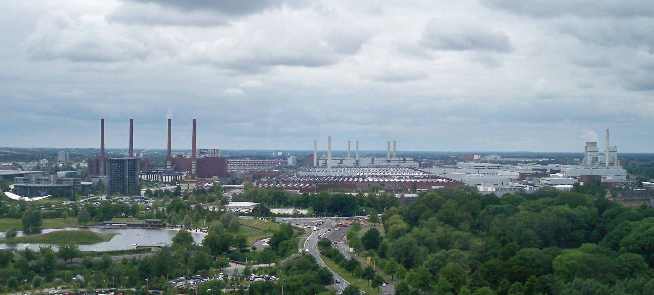 Wolfsburg, Lower Saxony, Volkswagen plant Wolfsburg from east